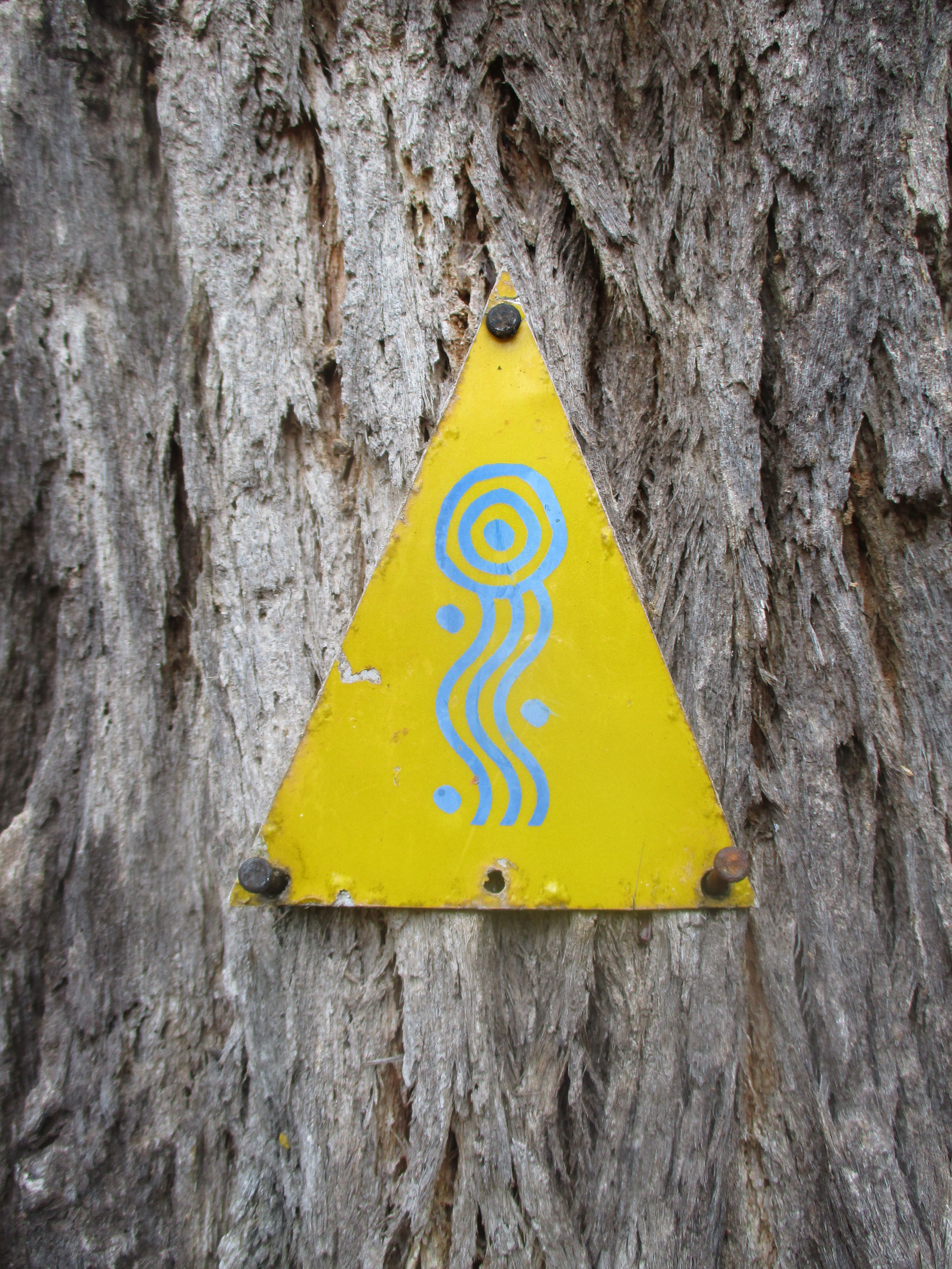 Munda Biddi Trail symbol, Lane Poole Reserve